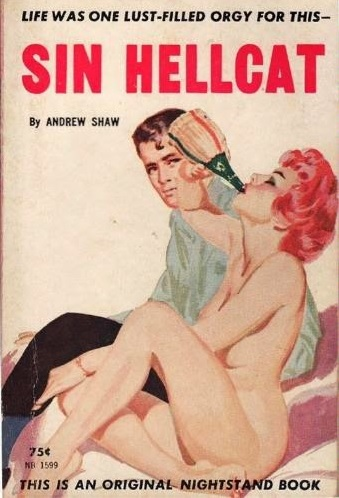 Cover of "Sin Hellcat" by Andrew Shaw (Donald Westlake). Illustration by Harold W. McCauley.